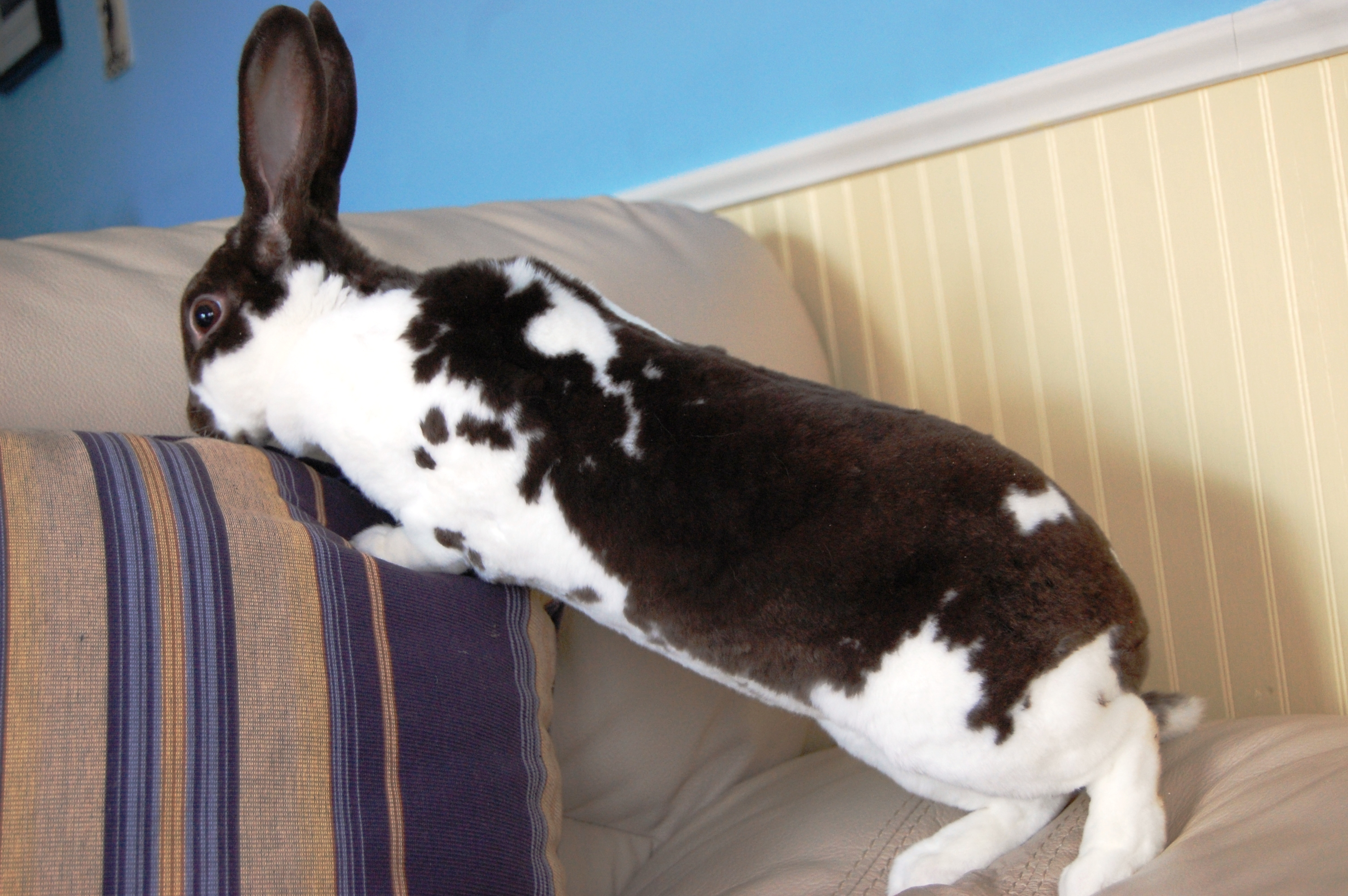 Broken Mini Rex.